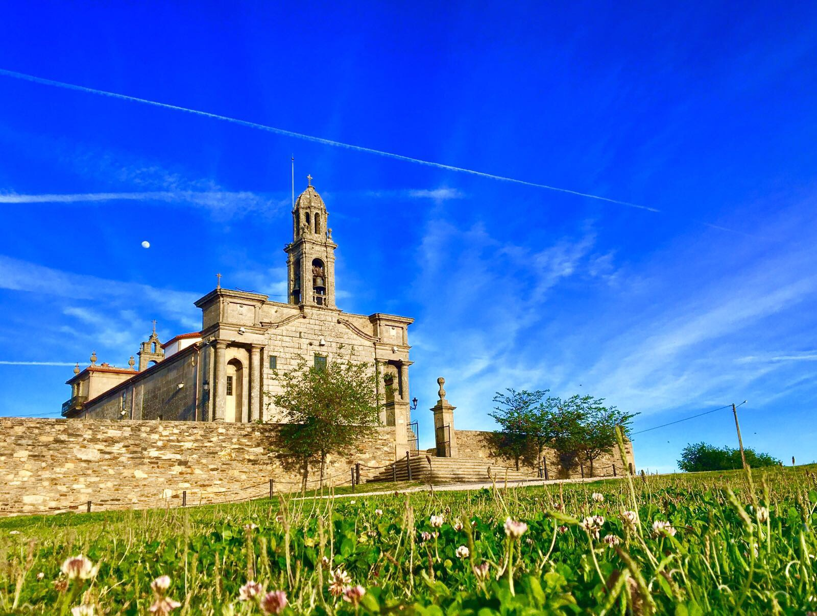 Sanctuary of O Corpiño